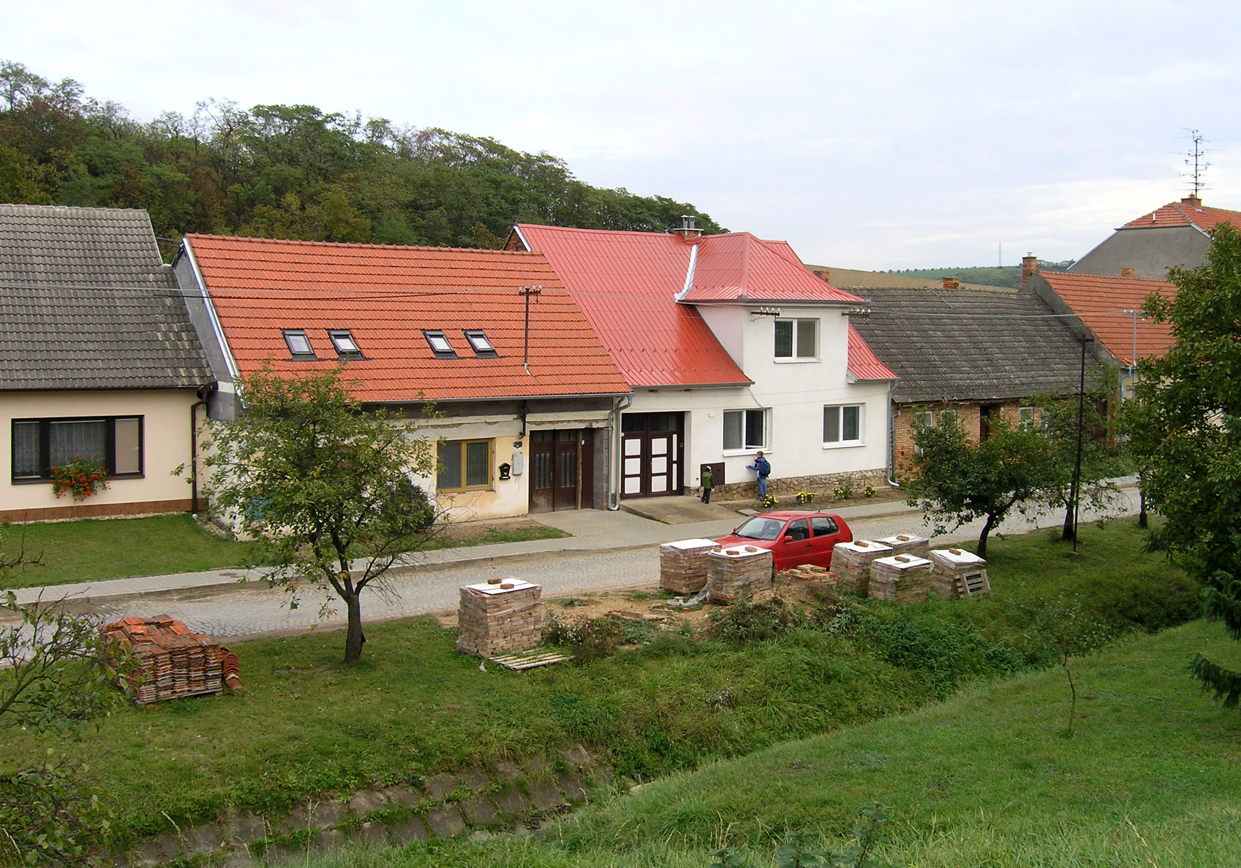 South part of Horní Bojanovice village, Czech Republic